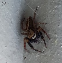 Male Trite auricoma with "mustache" that identifies it as a male.